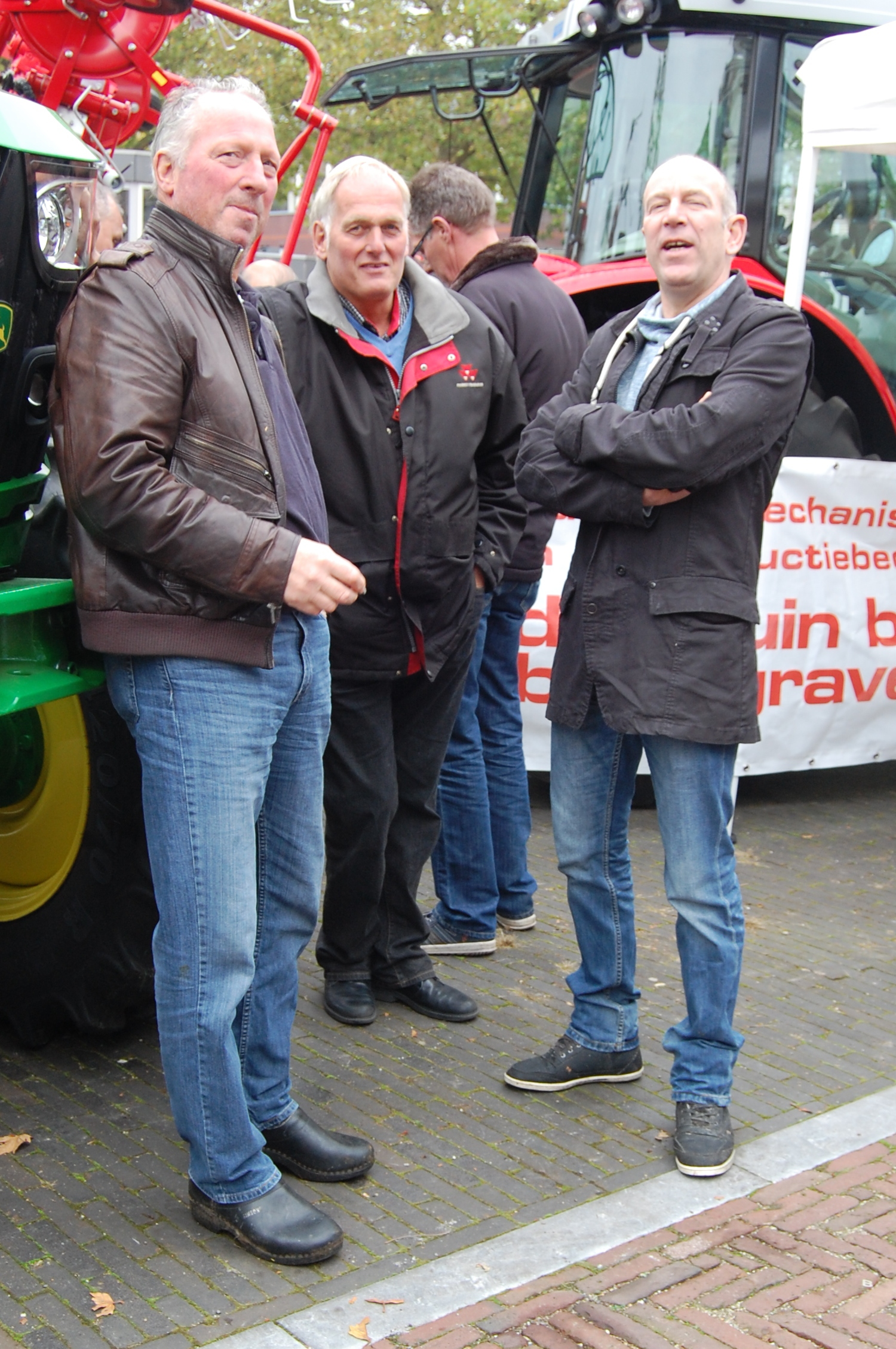 Talking farmers (probably) on yearly market in Woerden